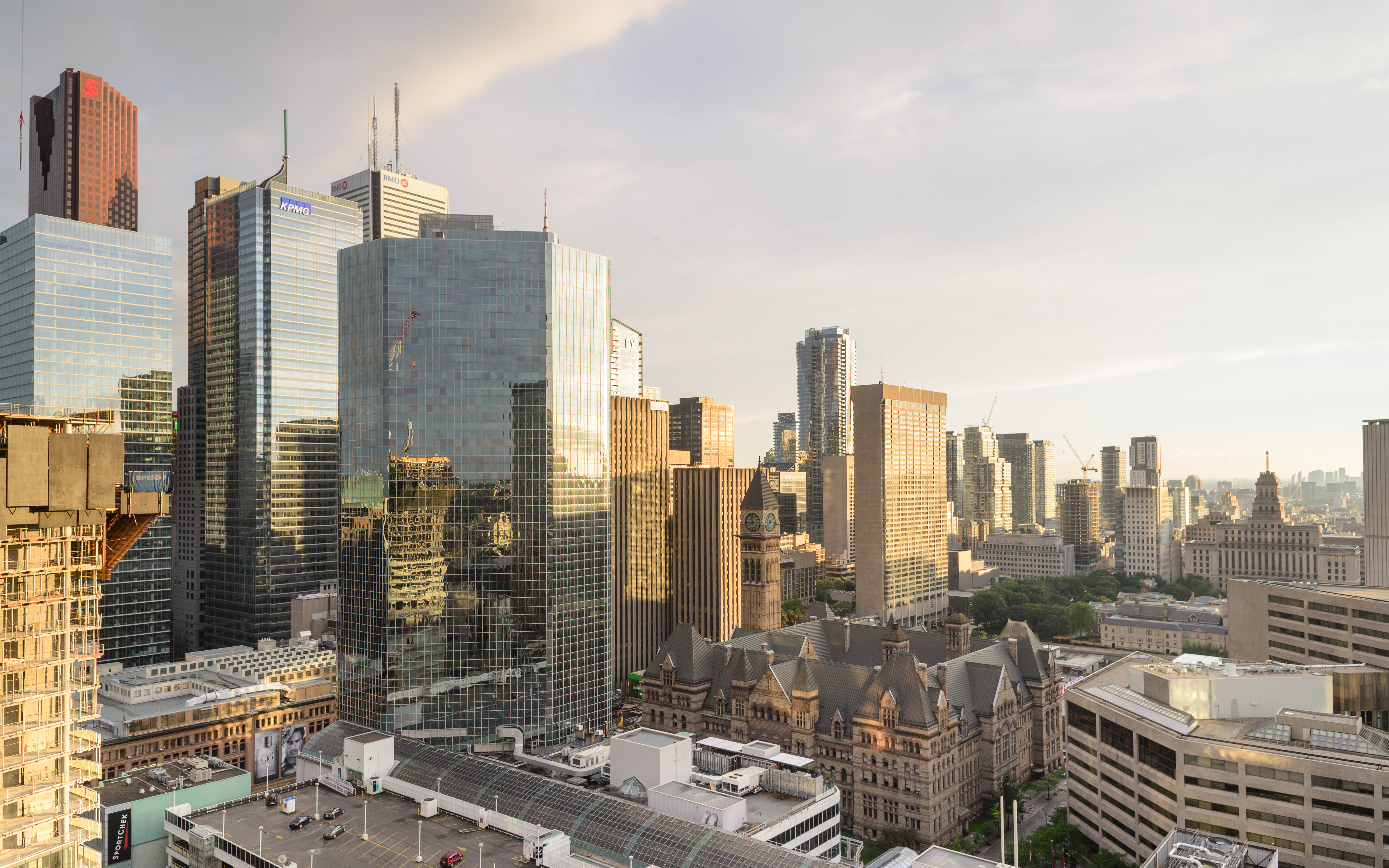 Toronto financial district and the old city hall. View from Pantages Tower.